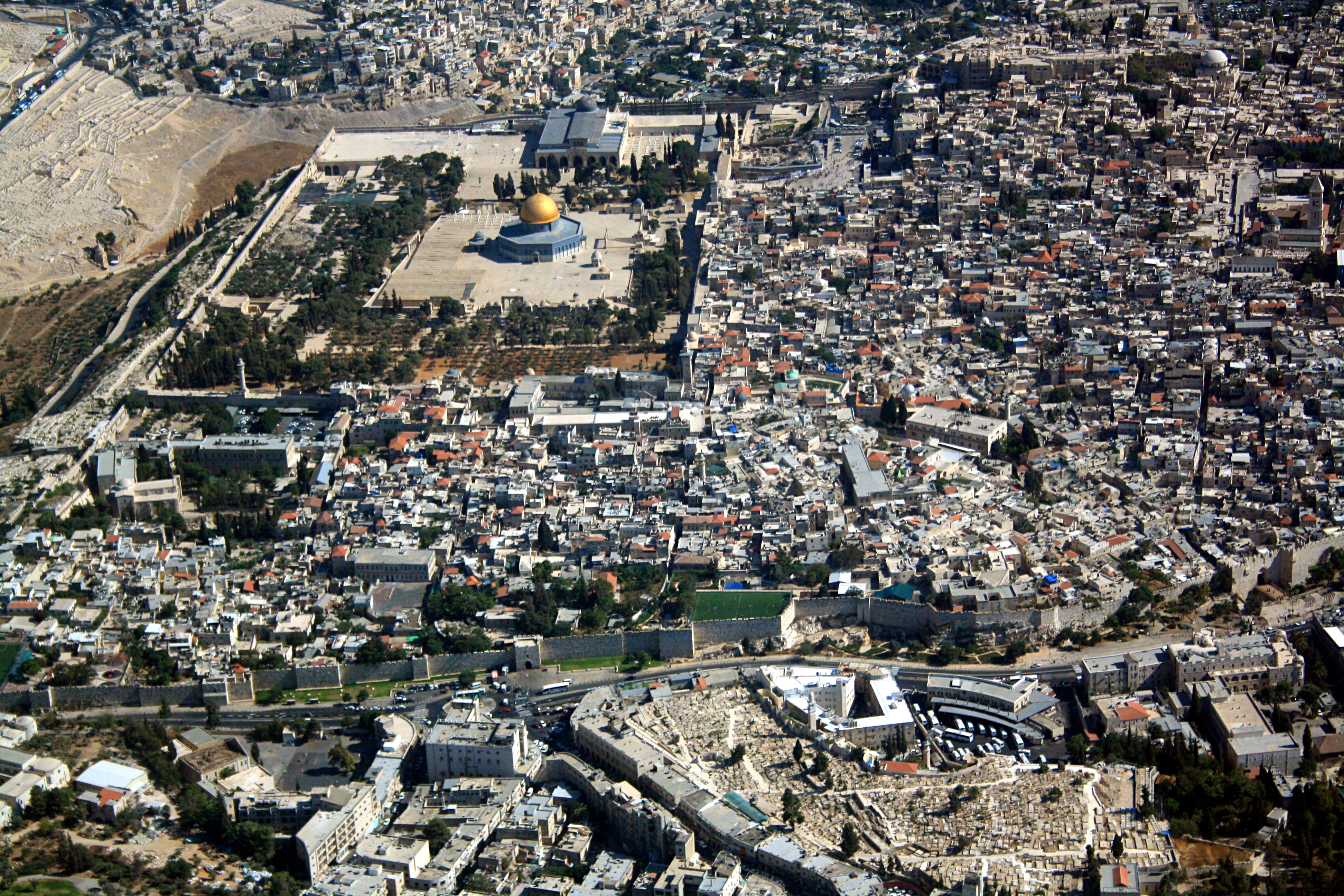 Old City of Jerusalem.